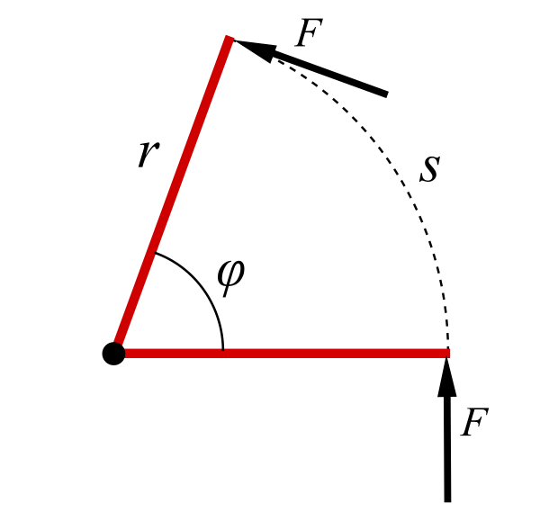 Work and torque